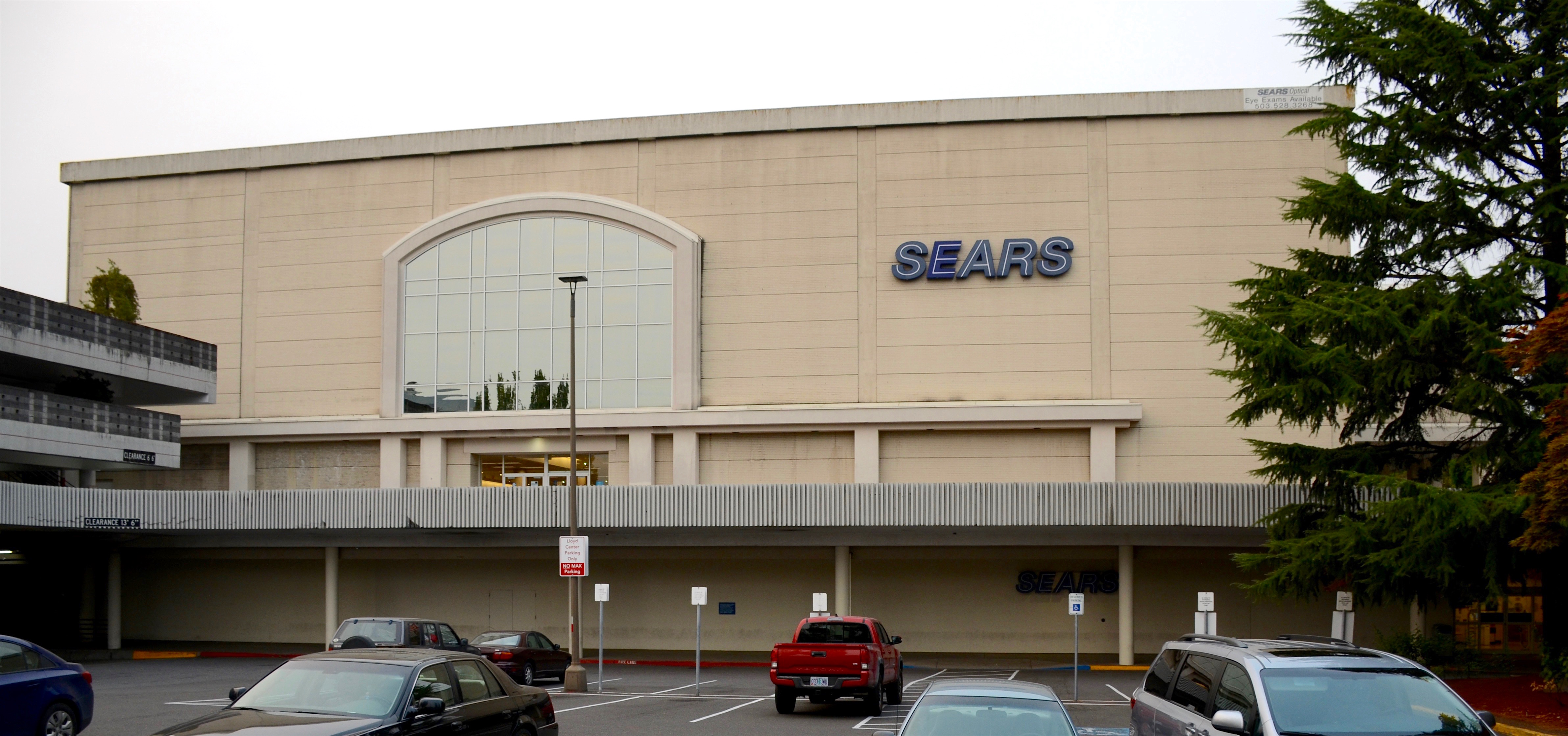 The exterior of the Sears store at the Lloyd Center mall in Portland, Oregon, from Holladay street, looking north.